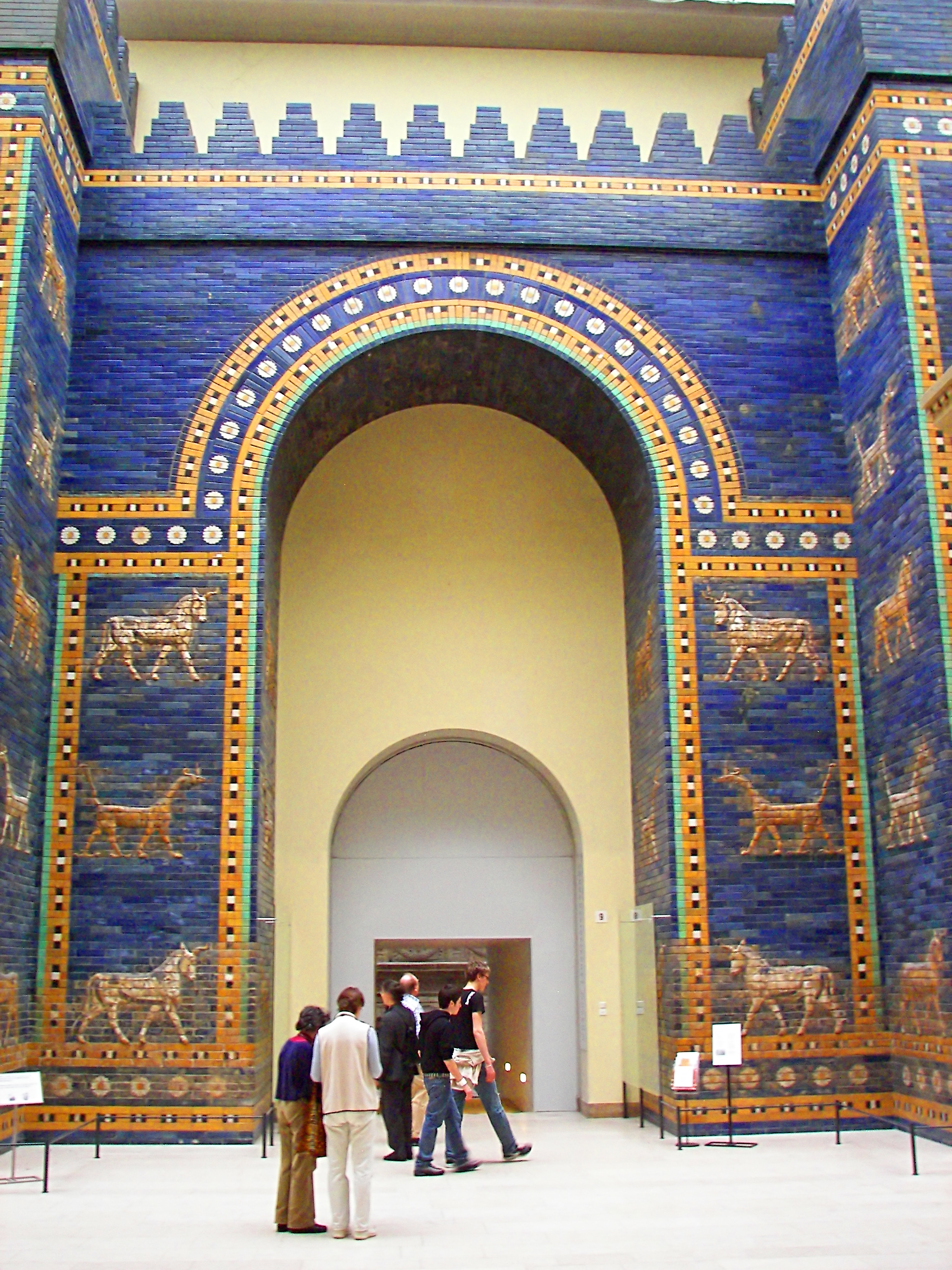 Ishtar Gate in the Pergamonmuseum